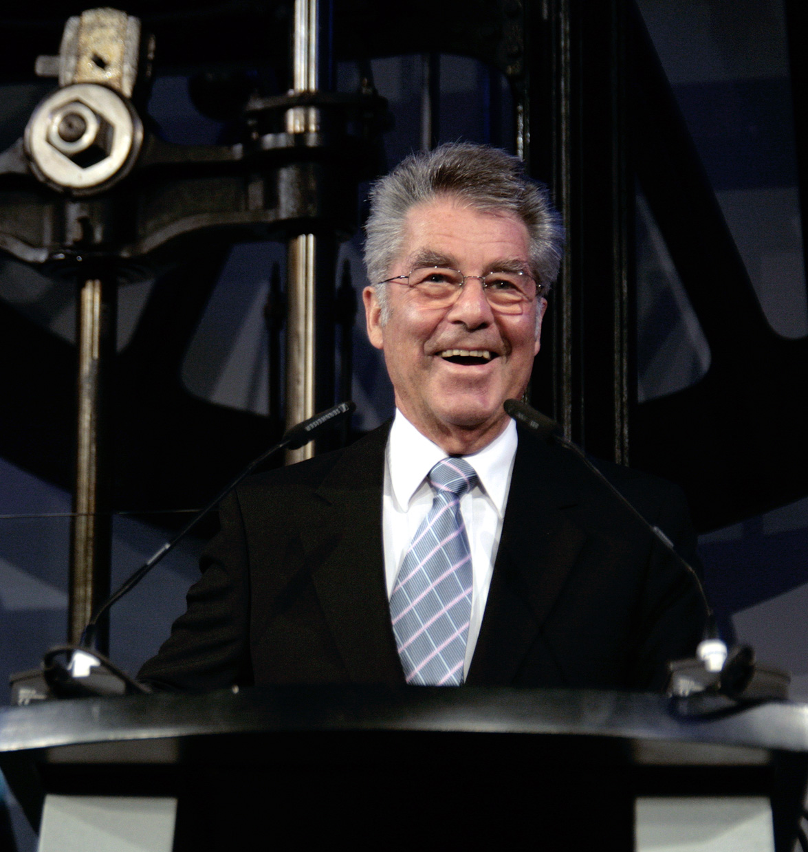 Austrian federal president Heinz Fischer during the celebrations of the 100th anniversary of the Vienna Technical Museum